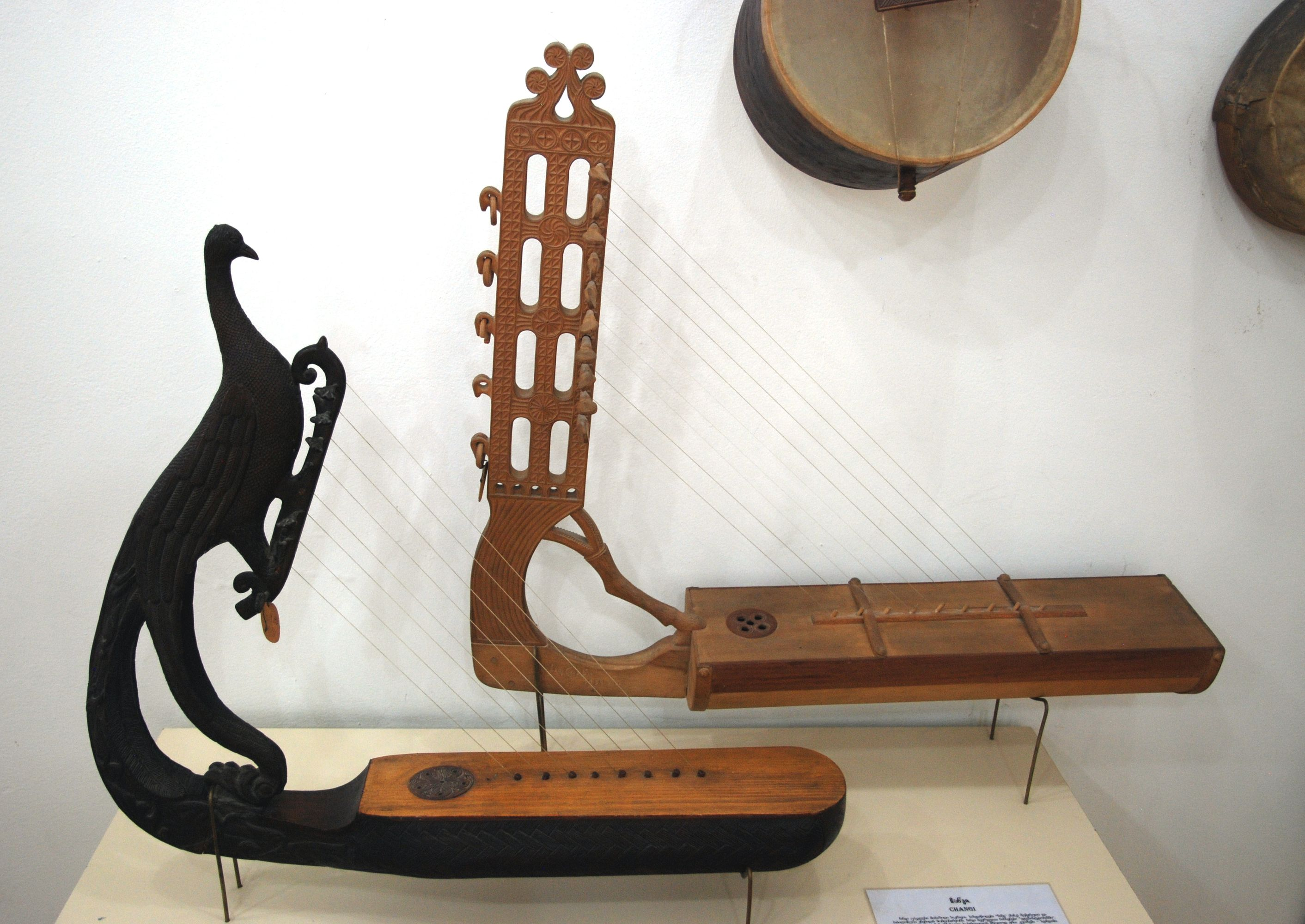 Changi, State Museum of Georgian Folk Songs and Musical Instruments, Tbilisi